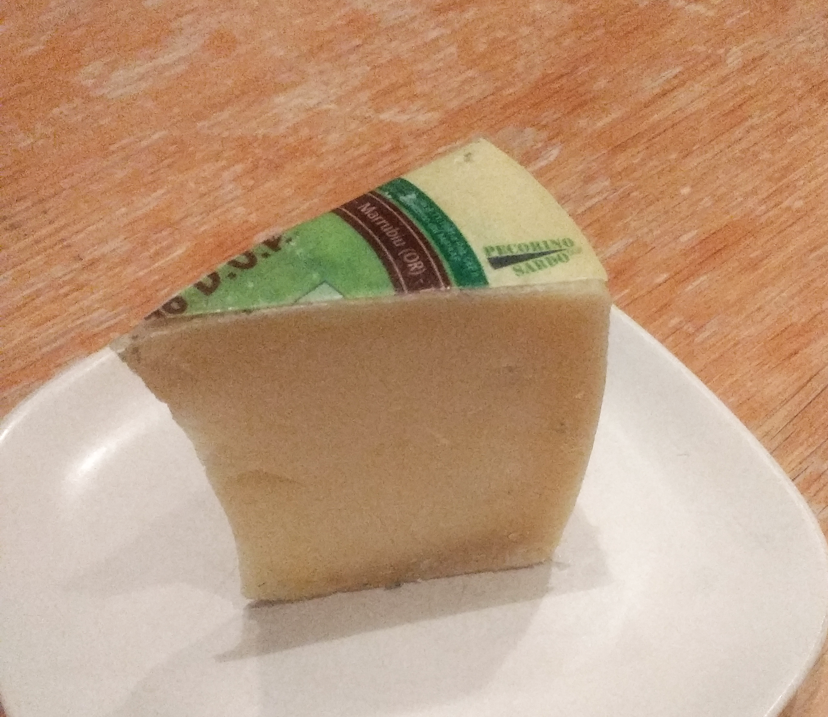 Cheese slice of Pecorino Sardo DOP